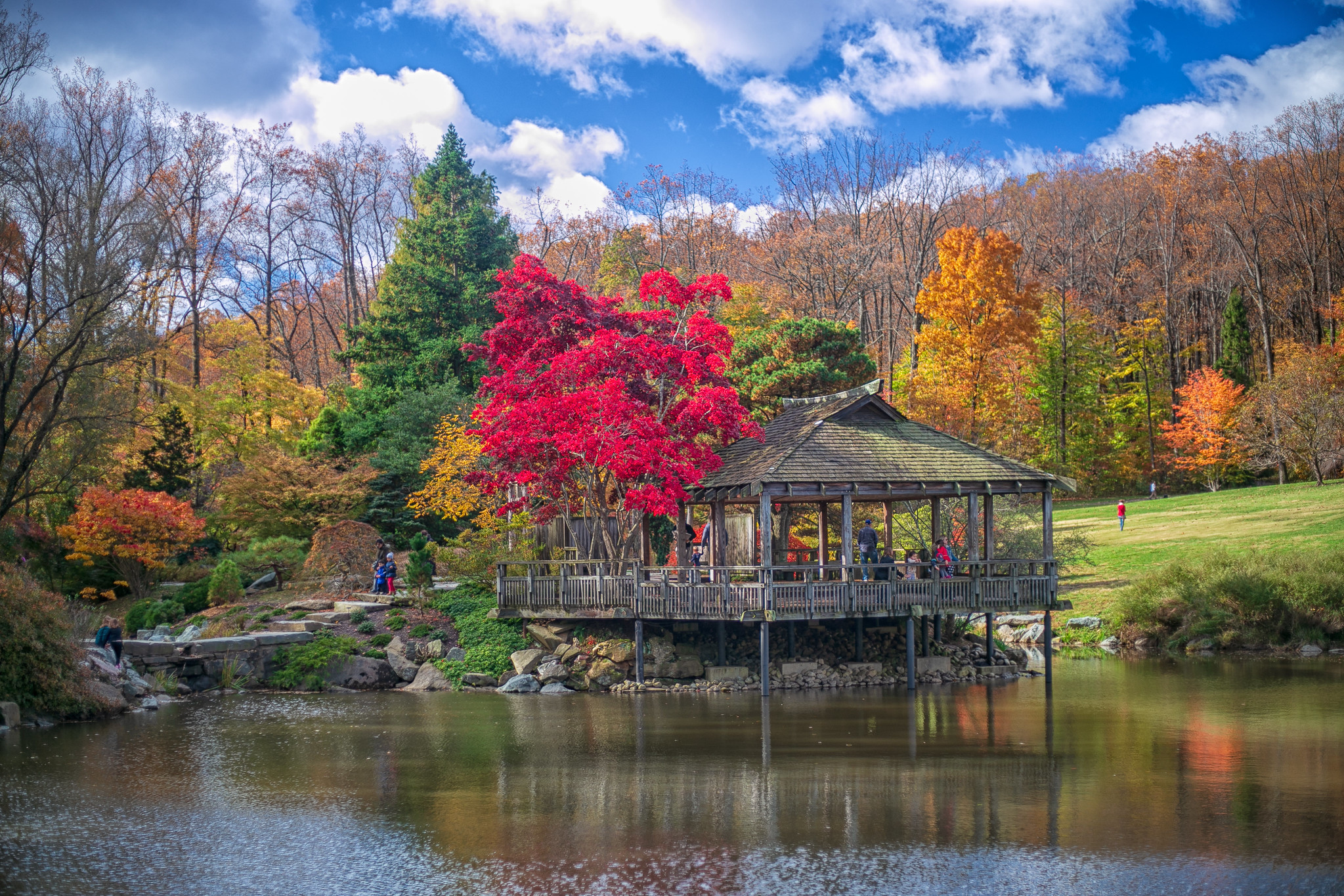 The teahouse in the Gude Garden at Brookside Gardens in Fall 2018